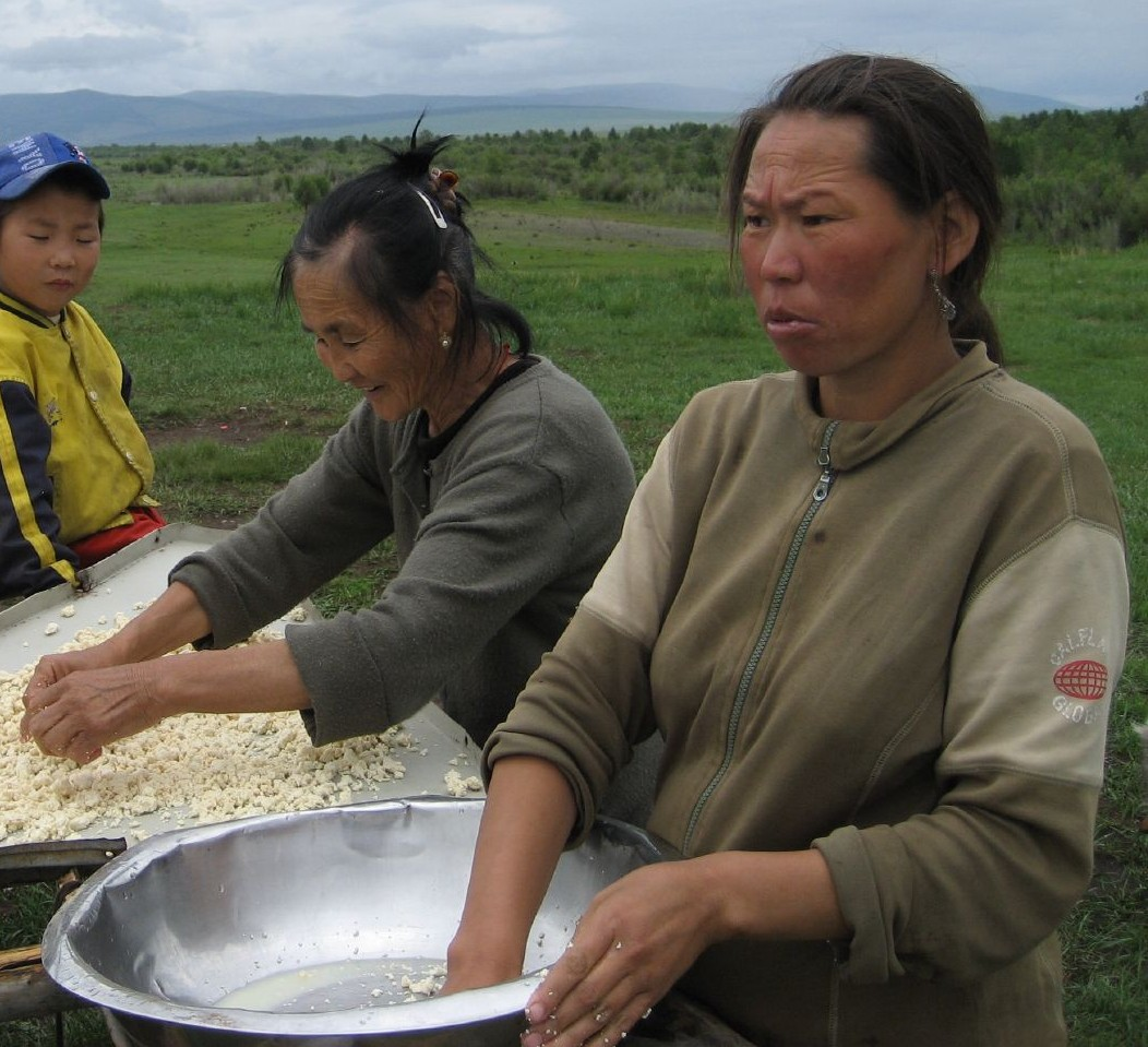 The women use an old satellite dish to lay out the milk curds to dry